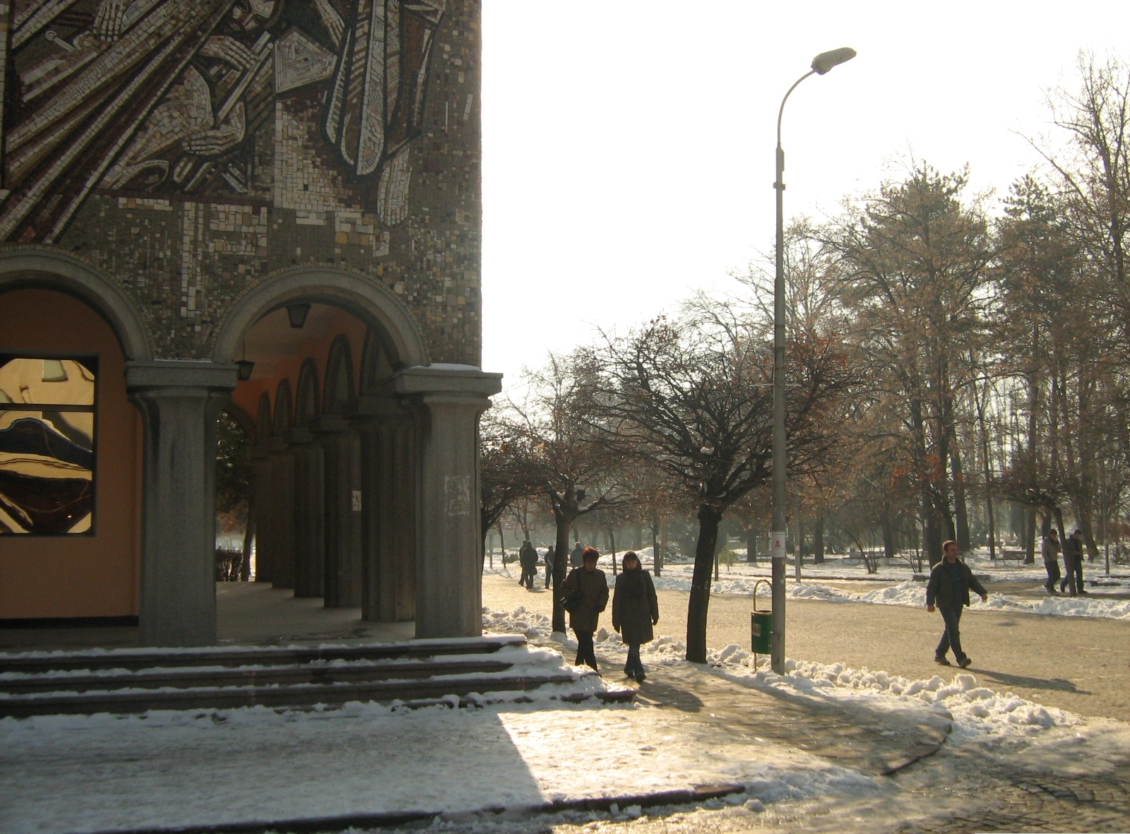 Kardzhali, Bulgaria